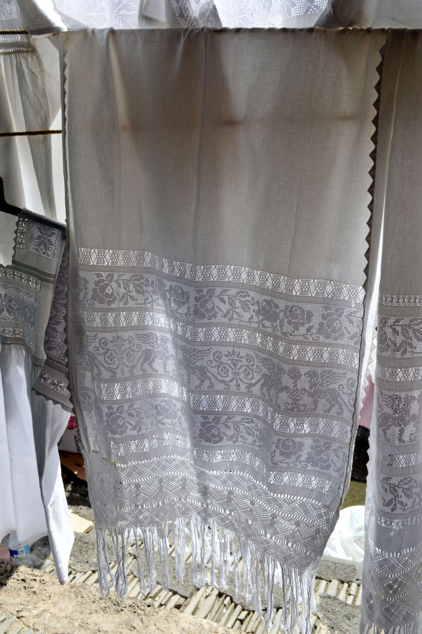 Deshilado rebozo for sale at the Museo Indigena La Huatapera, part of the Tianguis de Domingo de Ramos in Uruapan, Michoacan, Mexico